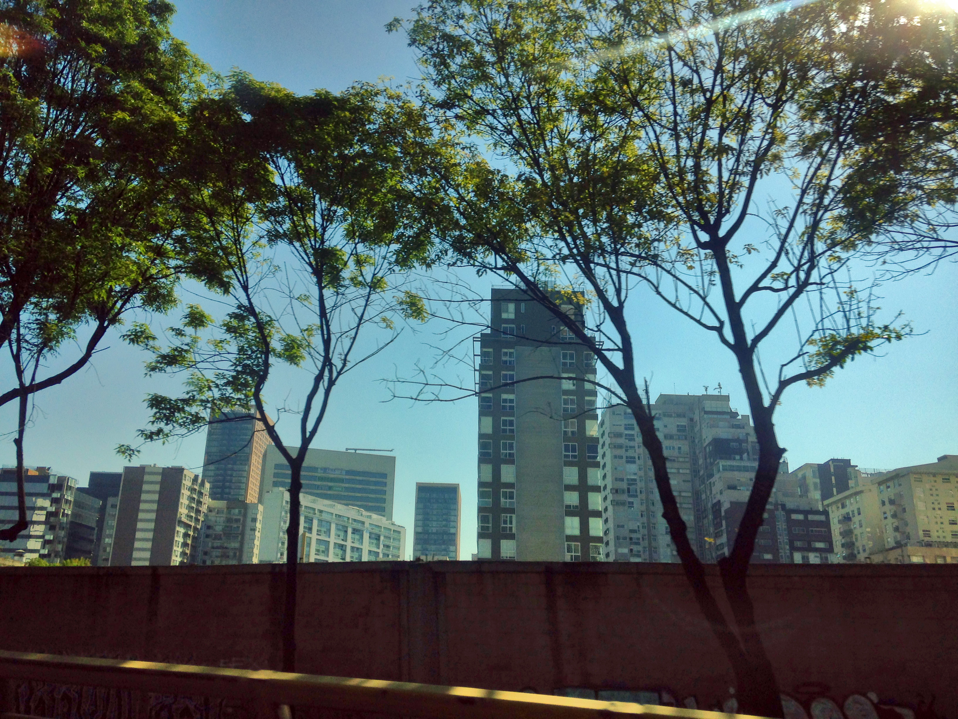 Nuevo Polanco from its northern limit in Rio San Joaquín avenue, Mexico City